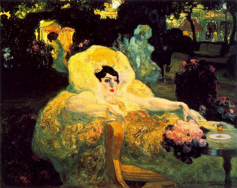 óleo sobre lienzo